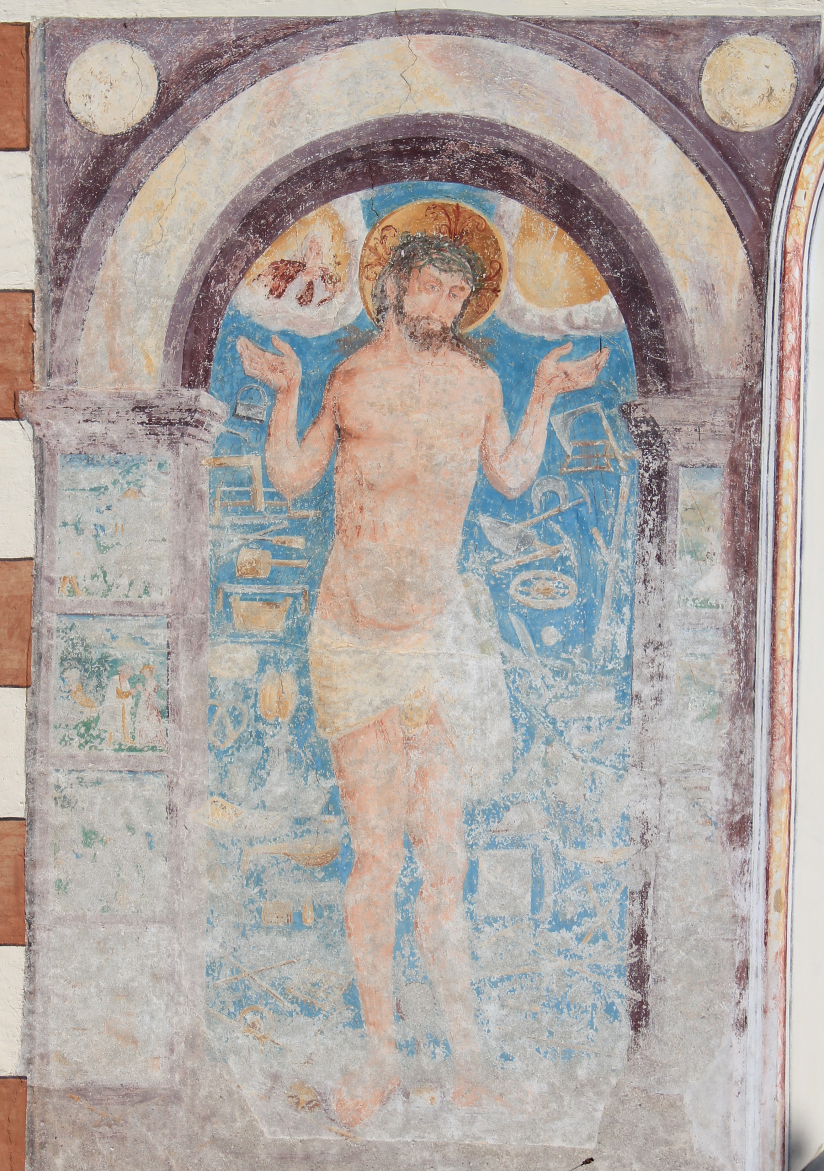 Church of Mauthen in the community of Kötschach-Mauthen - Man of sorrows